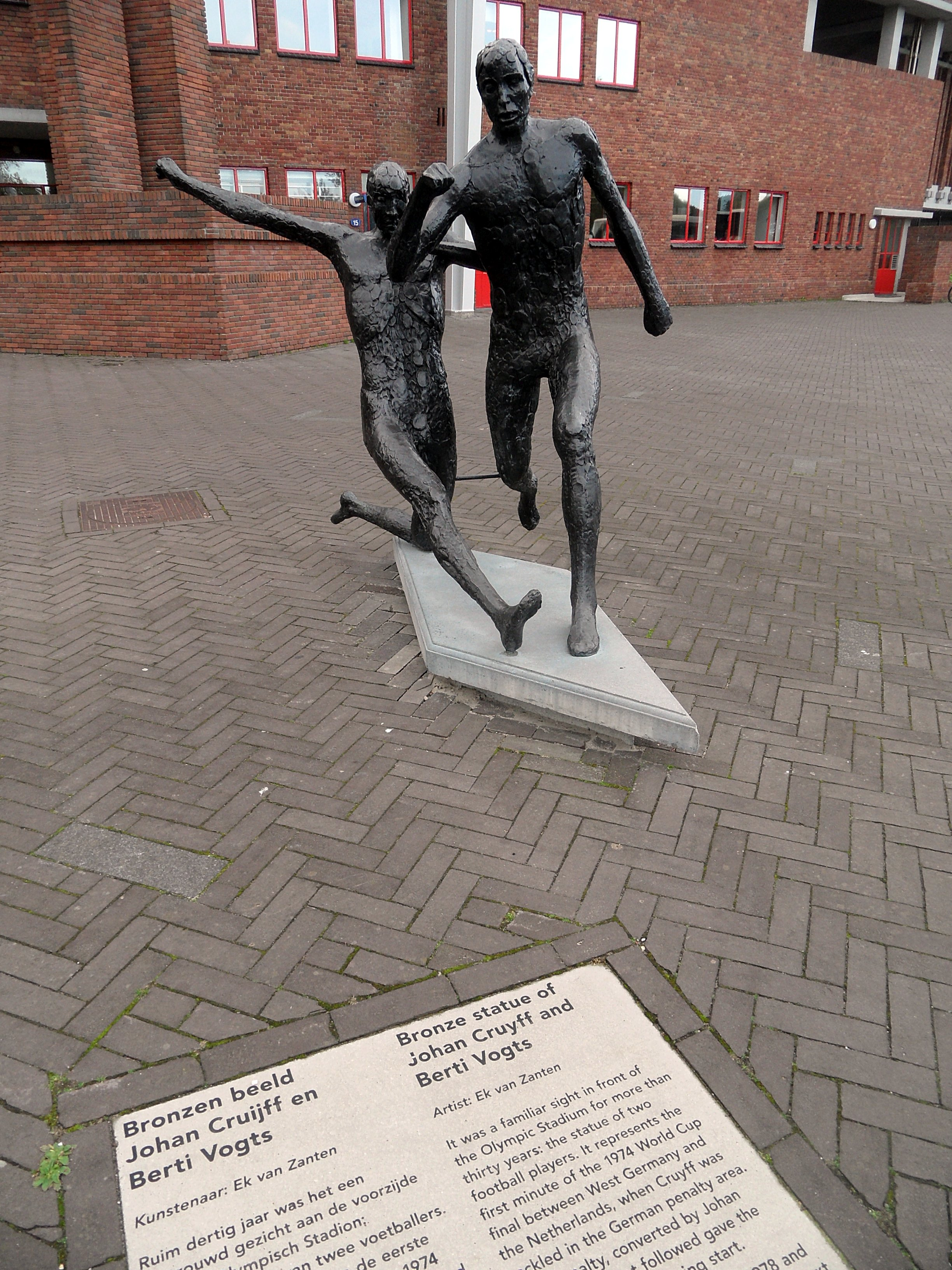 Amsterdam: Footballers monument northwest of Olympisch Stadion, depicting tackling of Berti Vogts versus Johan Cruyff in World Cup final 1974; in October 2018